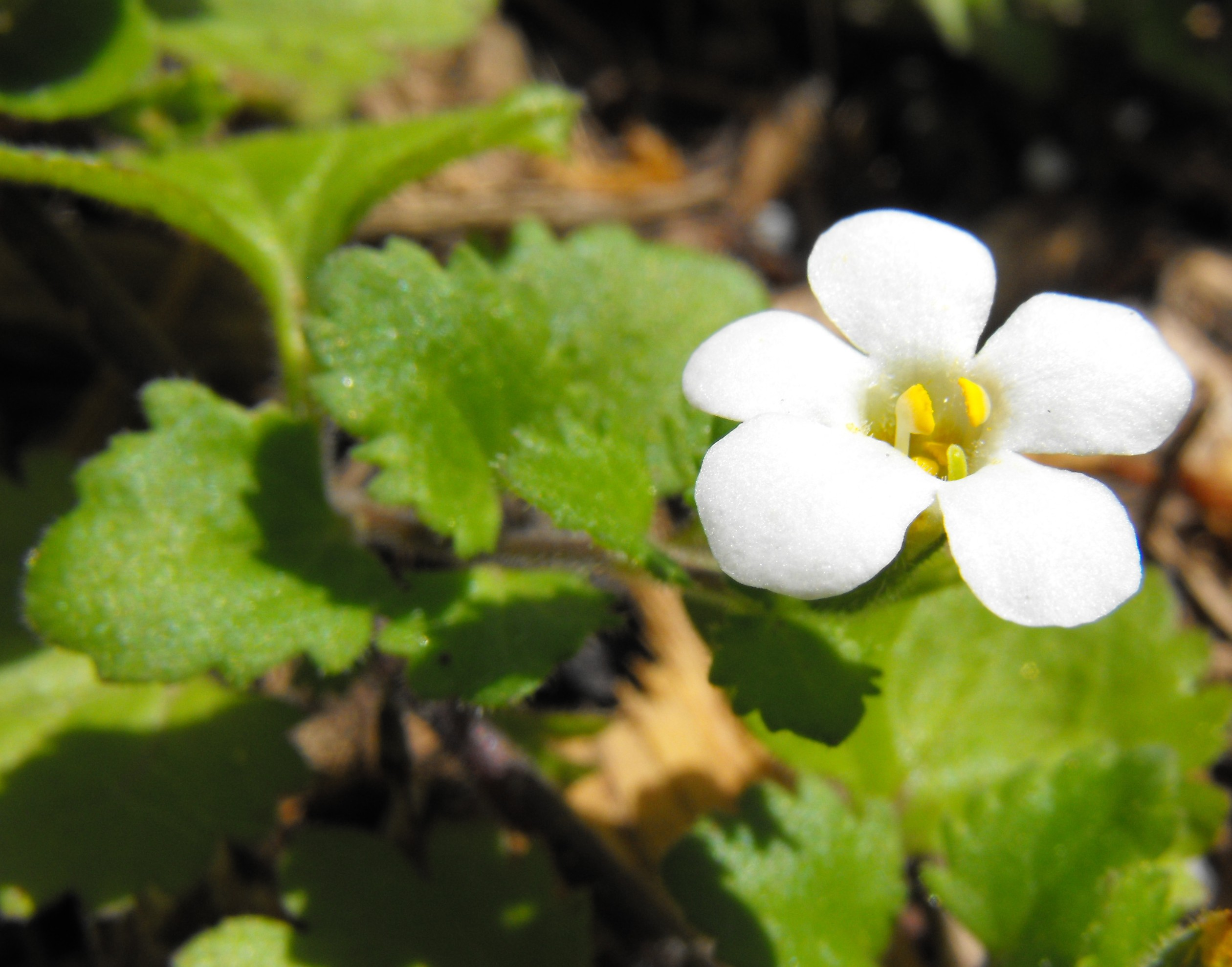 Chaenostoma cordatum (syn: Sutera cordata) 'Snowflake' At San Diego Botanic Garden (formerly Quail Botanical Gardens), in Encinitas, California. Identified by sign.